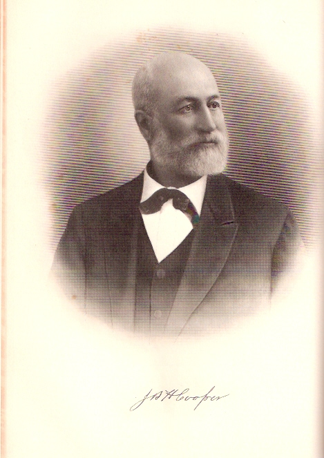 John Baptist Henry Cooper (1831 - 1899) was the son of John Bautista Rogers Cooper, one of the original recipients of several land grants from Mexican Governor José Figueroa.